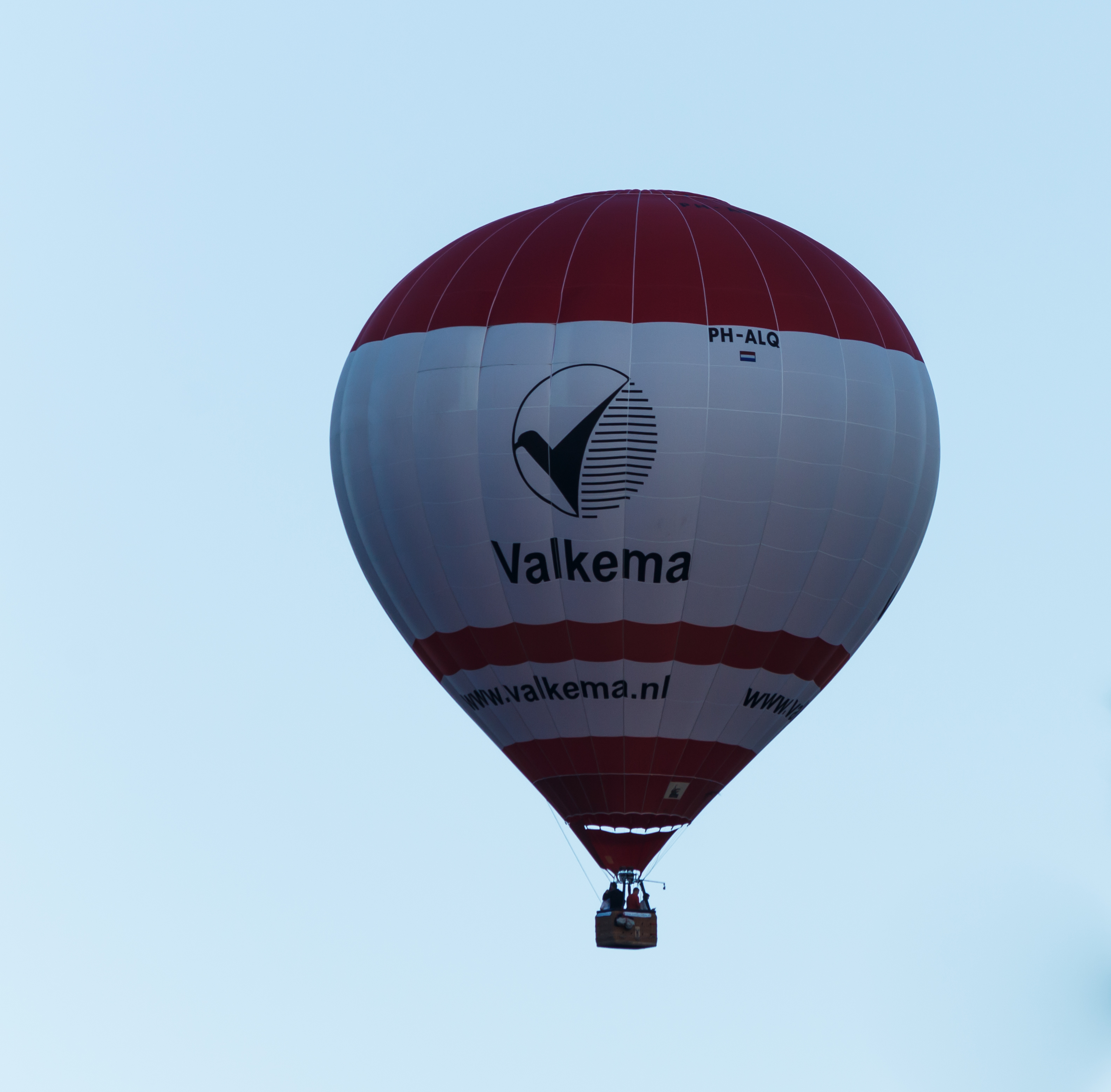 PH-ALQ balloon on the Hot Air Balloon Festival 2015 in Joure province of Friesland in the Netherlands.